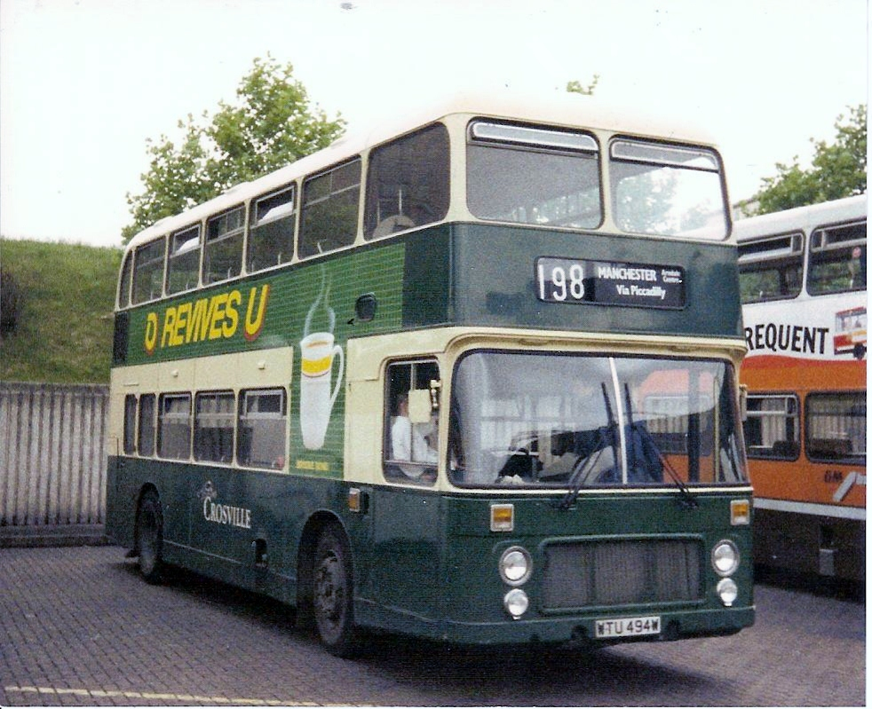 Taking a break in Stockport Bus Station, the bus is in the 2nd Post D-day livery of Crosville, a dignified dark green and cream. The first was the same dark green and bright orange (FRIGHTENING!!)